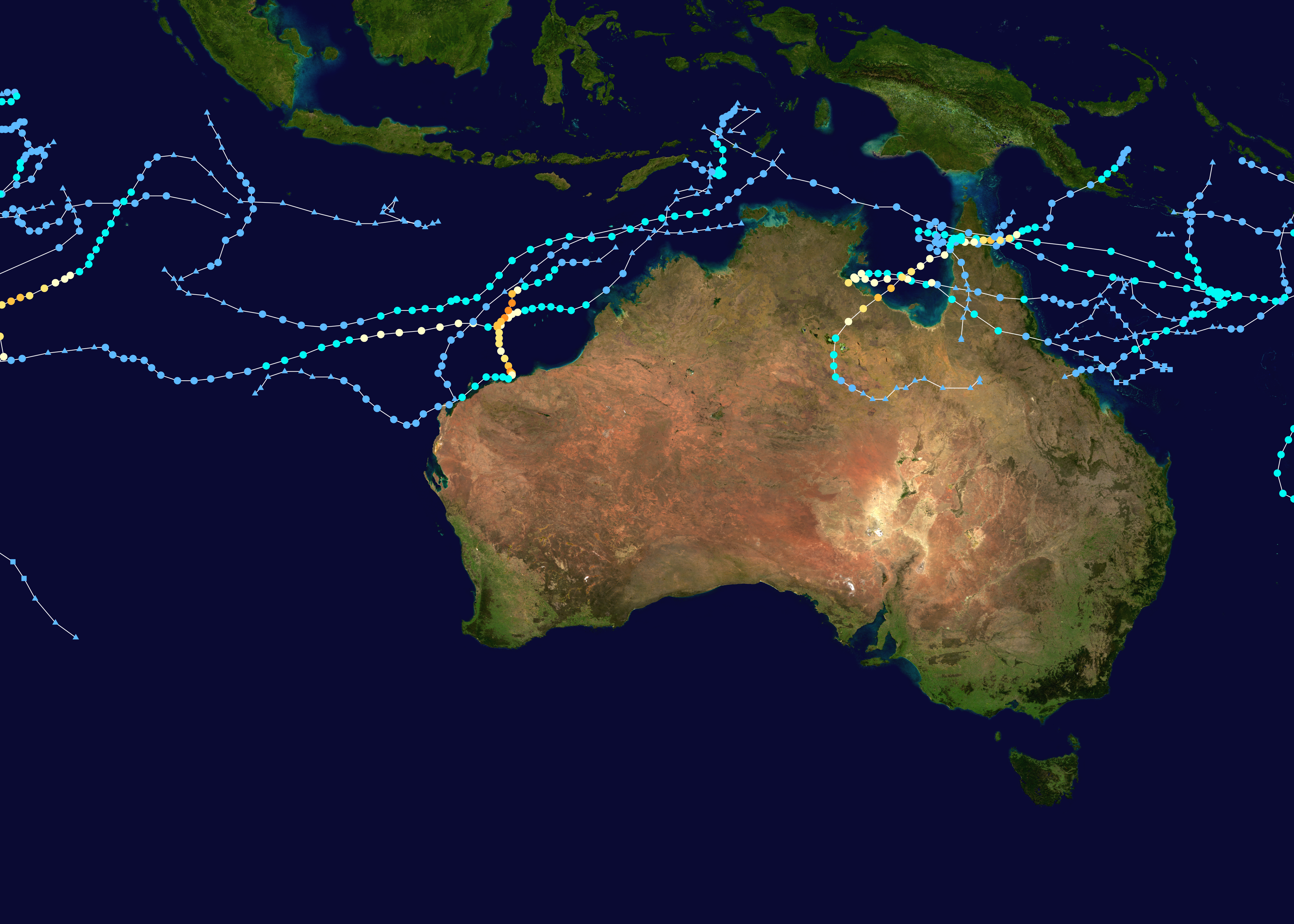 This map shows the tracks of all tropical cyclones in the 2018-19 Australian region cyclone season. The points show the location of each storm at 6-hour intervals. The colour represents the storm's maximum sustained wind speeds as classified in the Saffir-Simpson Hurricane Scale (see below), and the shape of the data points represent the type of the storm. Saffir–Simpson scale Tropical depression≤38 mph≤62 km/h Category 3111–129 mph178–208 km/h Tropical storm39–73 mph63–118 km/h Category 4130–156 mph209–251 km/h Category 174–95 mph119–153 km/h Category 5≥157 mph≥252 km/h Category 296–110 mph154–177 km/h Unknown Storm type Tropical cyclone Subtropical cyclone Extratropical cyclone / Remnant low / Tropical disturbance / Monsoon depression